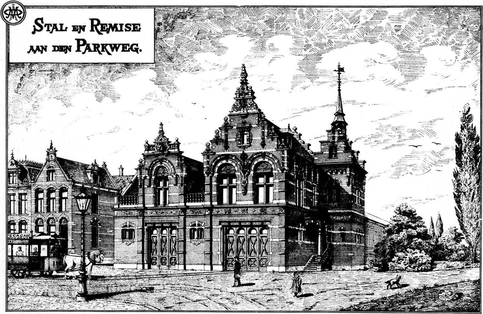 Tram Depot, Koninginneweg 29-31, Amsterdam. 1893.